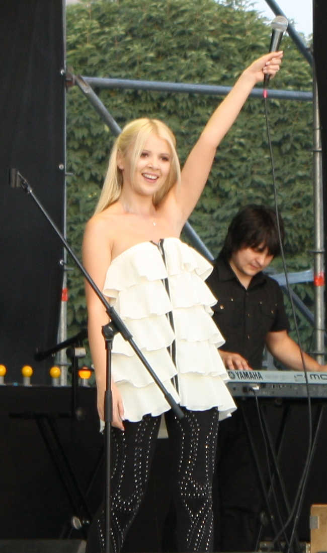 Mika Newton in Dniprodzerzhynsk